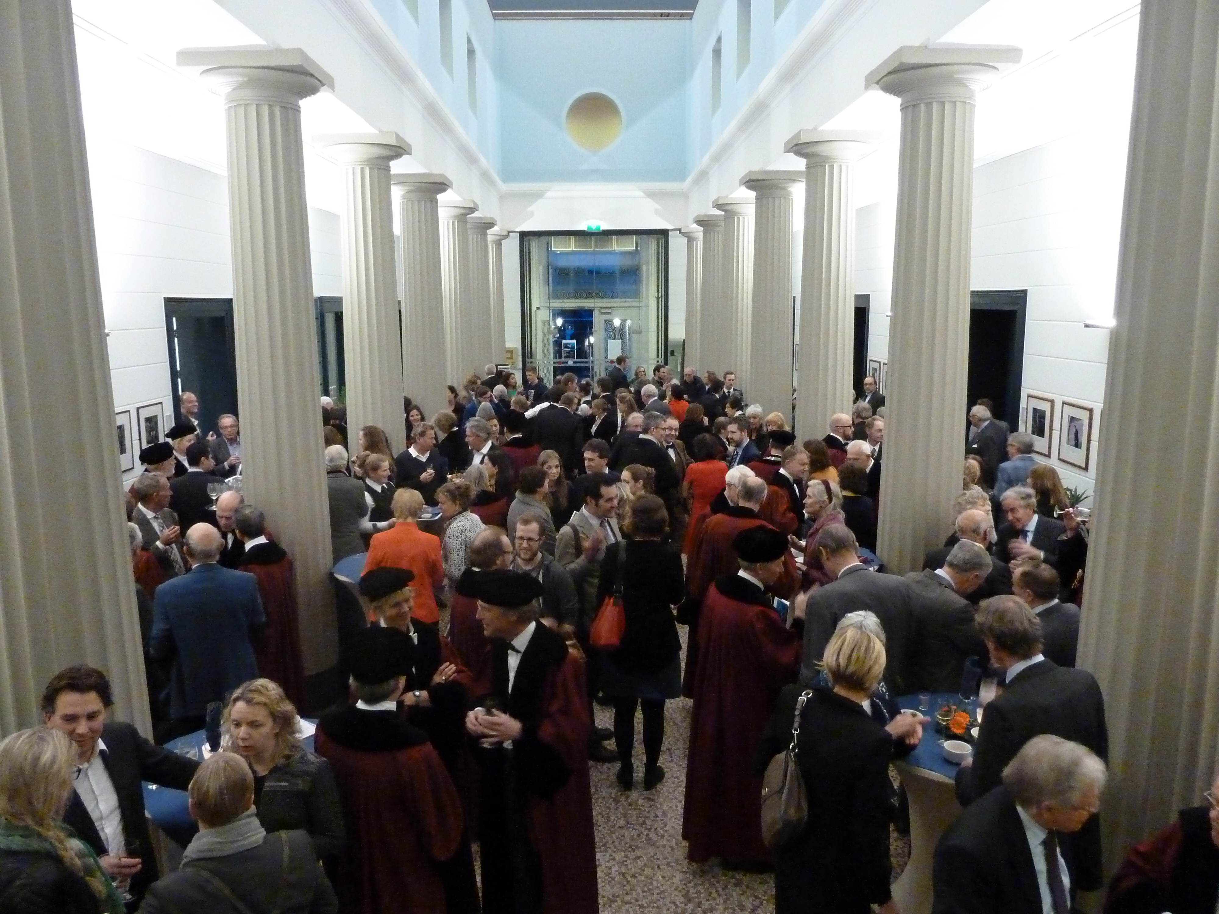 39th Dies Natalis of Maastricht University